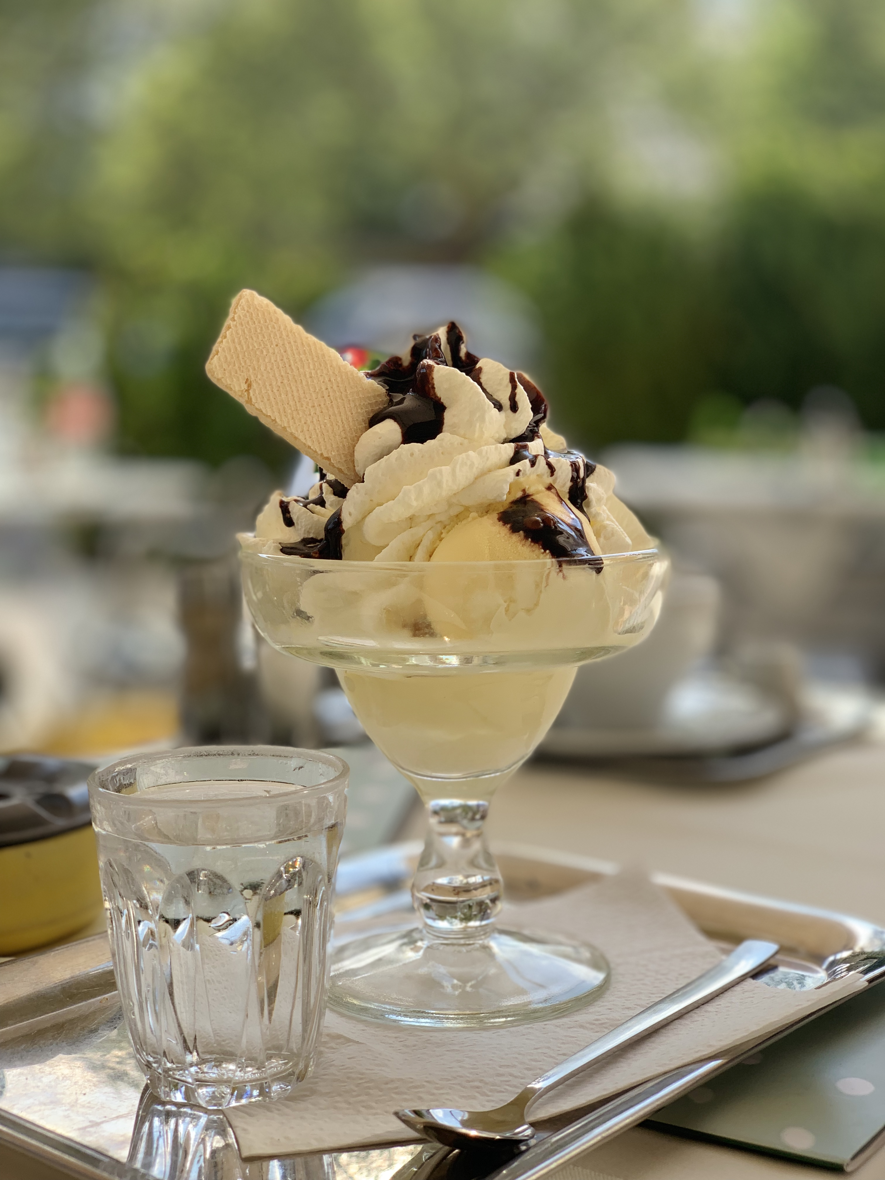 A cocktail glass of ice cream, with whipped cream, chocolate syrup, and a wafer